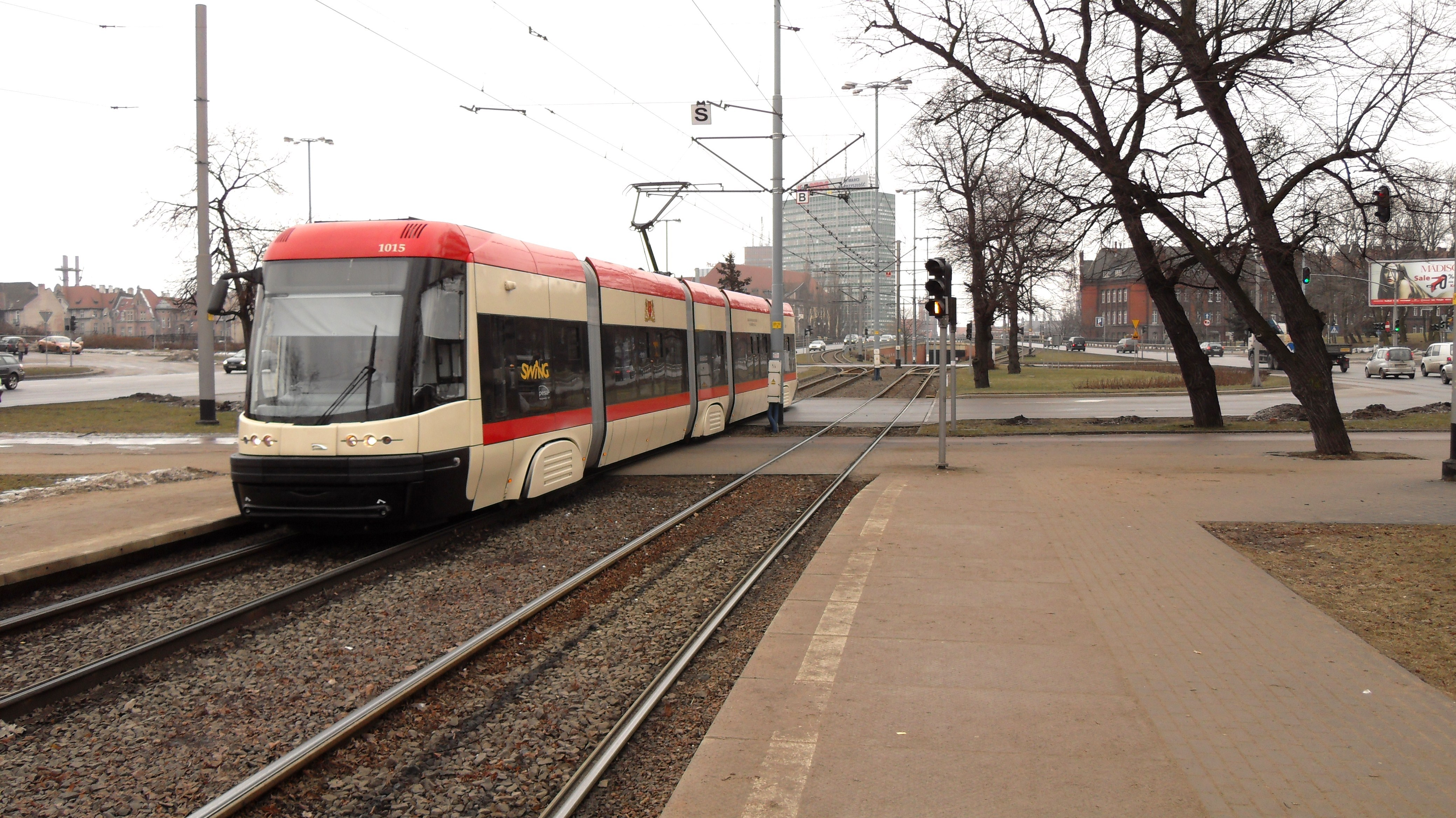 Brama Oliwska district in Gdańsk (Poland) & a PESA 120Na tram.